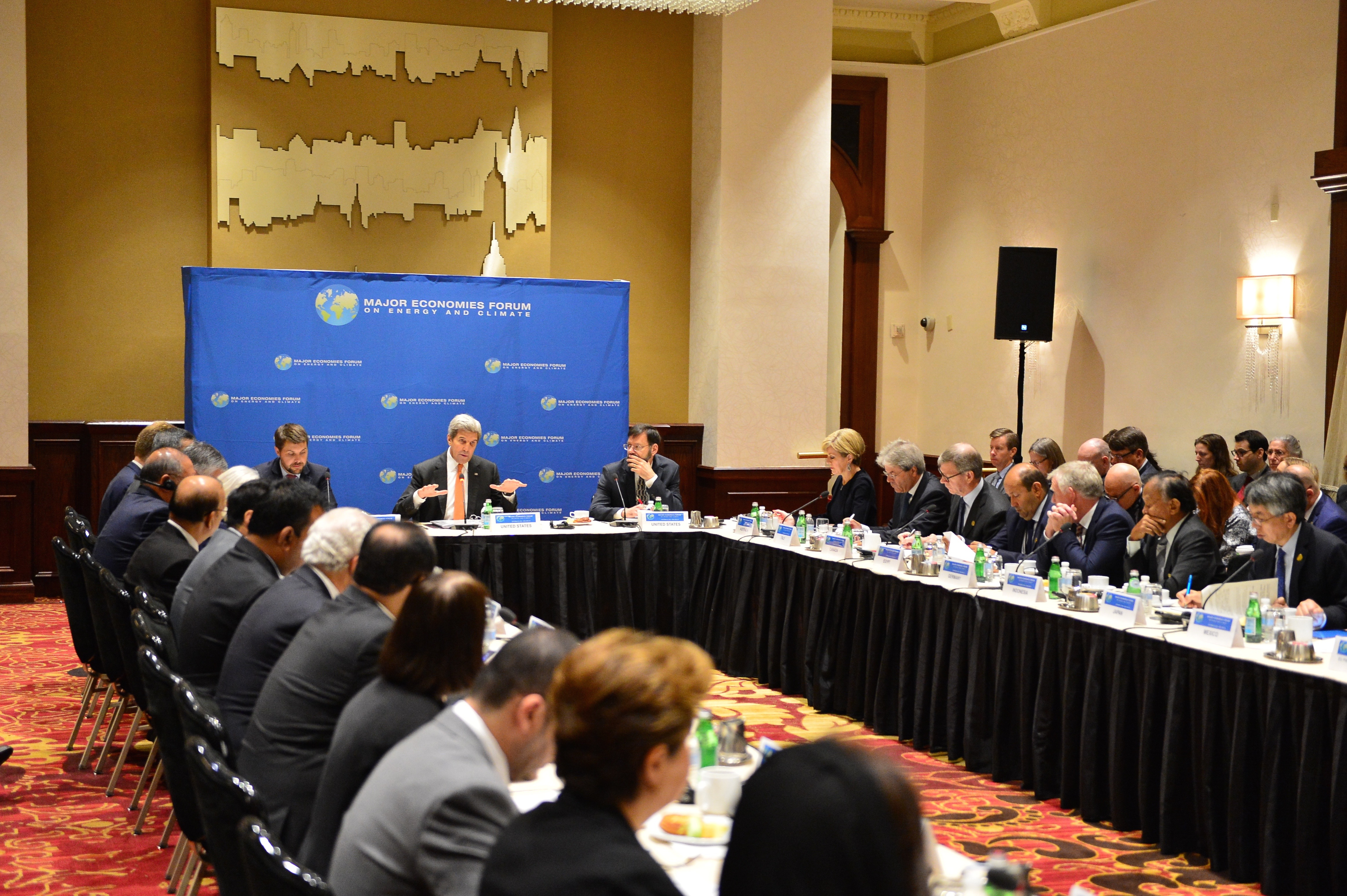 U.S. Secretary of State John Kerry participates in the Major Economies Forum, at the Marriott New York East Side Hotel, in New York City, New York on September 23, 2016. [State Department Photo/Public Domain]